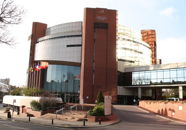 Harrogate International Centre It caused controversy and it cost millions, but in the last 25 years the Conference Centre [as it is usually known] has been at the heart of Harrogate's economy. There is a fine 2000 seat auditorium reached by a superbly designed curving concrete ramp. Even the Eurovision Song Contest came here back in the eighties - but maybe that isn't something to boast about.